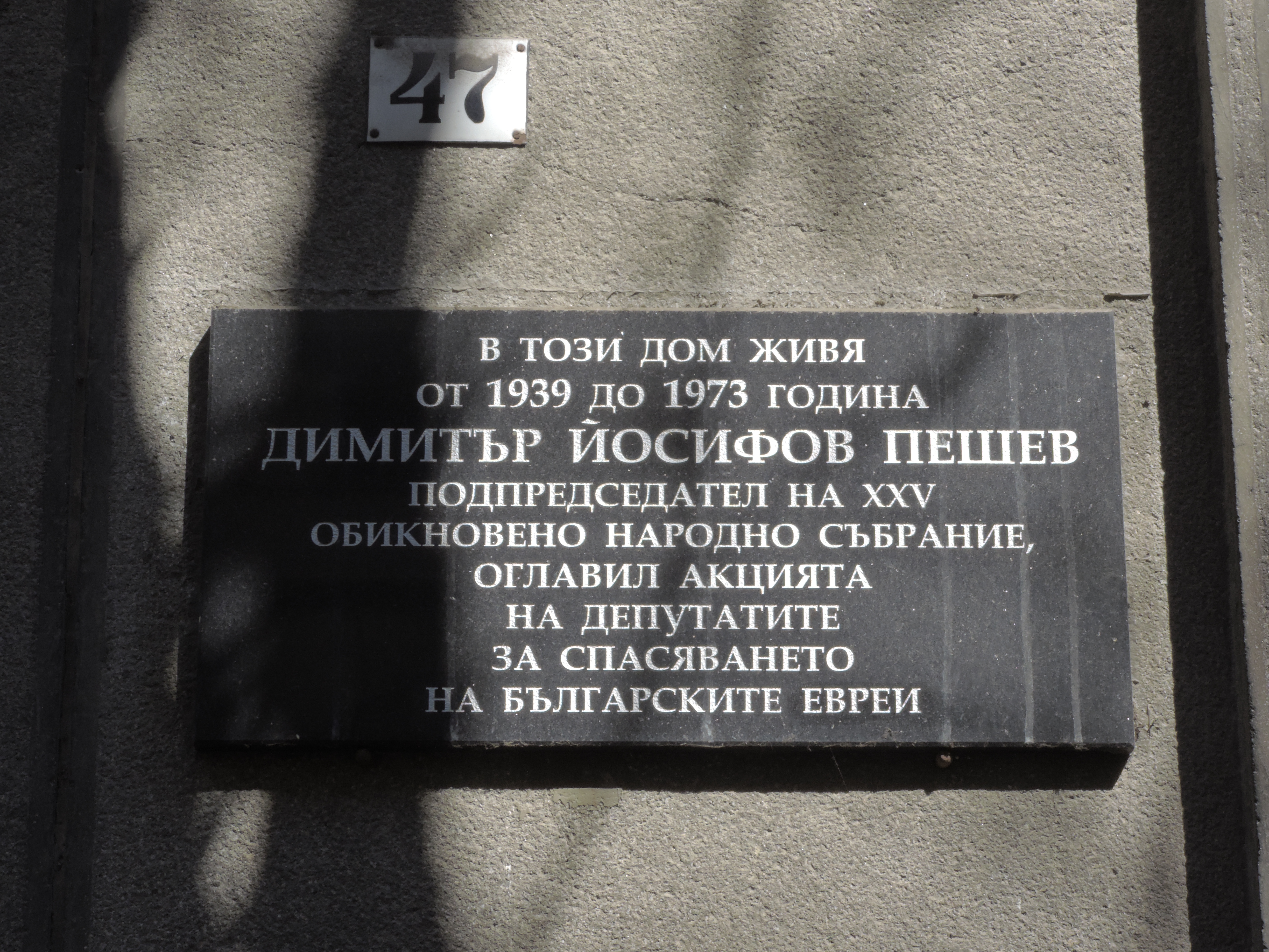 The memorial plaque on the house in which Dimitar Peshev lived from 1939 to 1973. The building is located on address 47 "Neofit Rilski" Str., Sofia, Bulgaria.